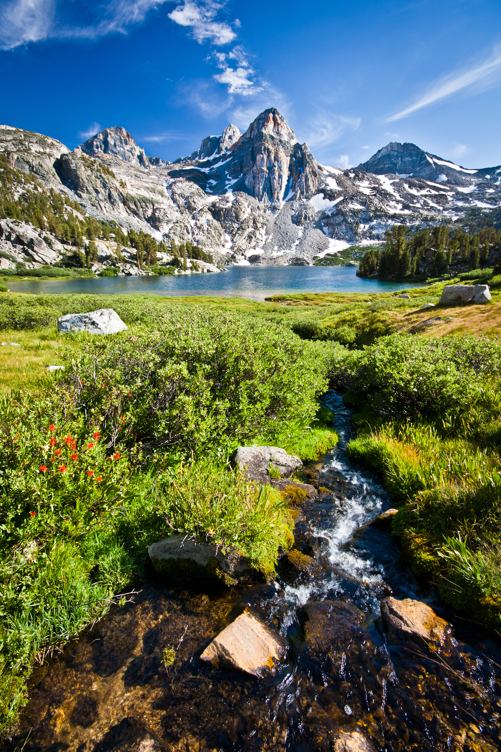 The Painted Lady over Rae Lakes, Kings Canyon National Park, CA. August 2011.